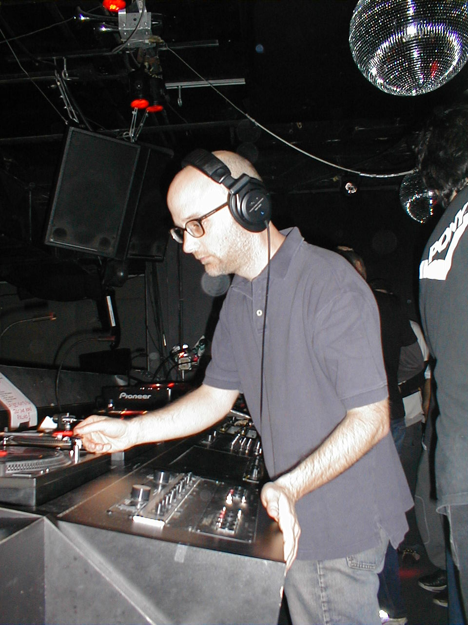 Moby at NASA Rewind 2004 in NYC (Manhattan)